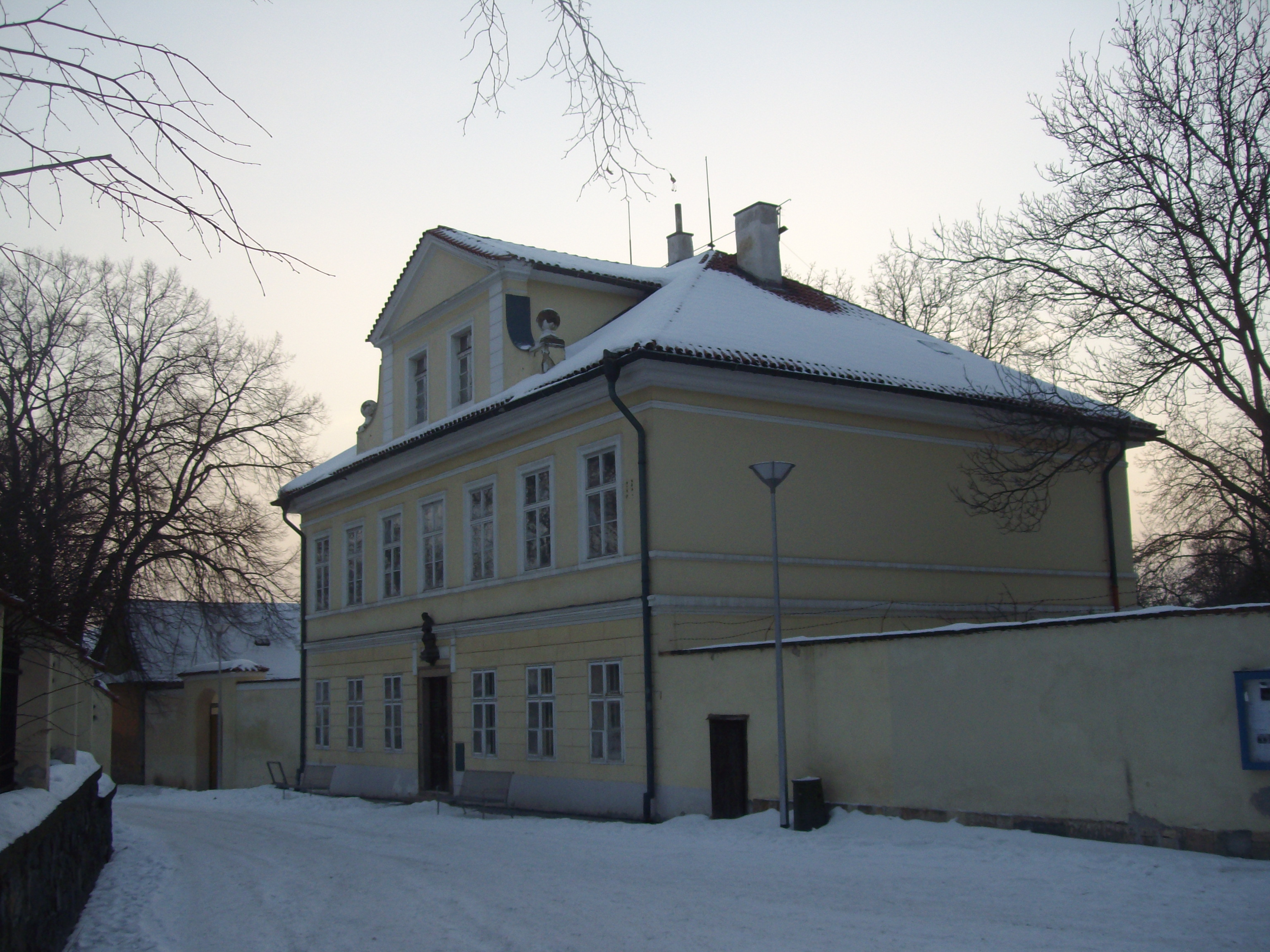 Vicarage of St Vaclav church in Prosek